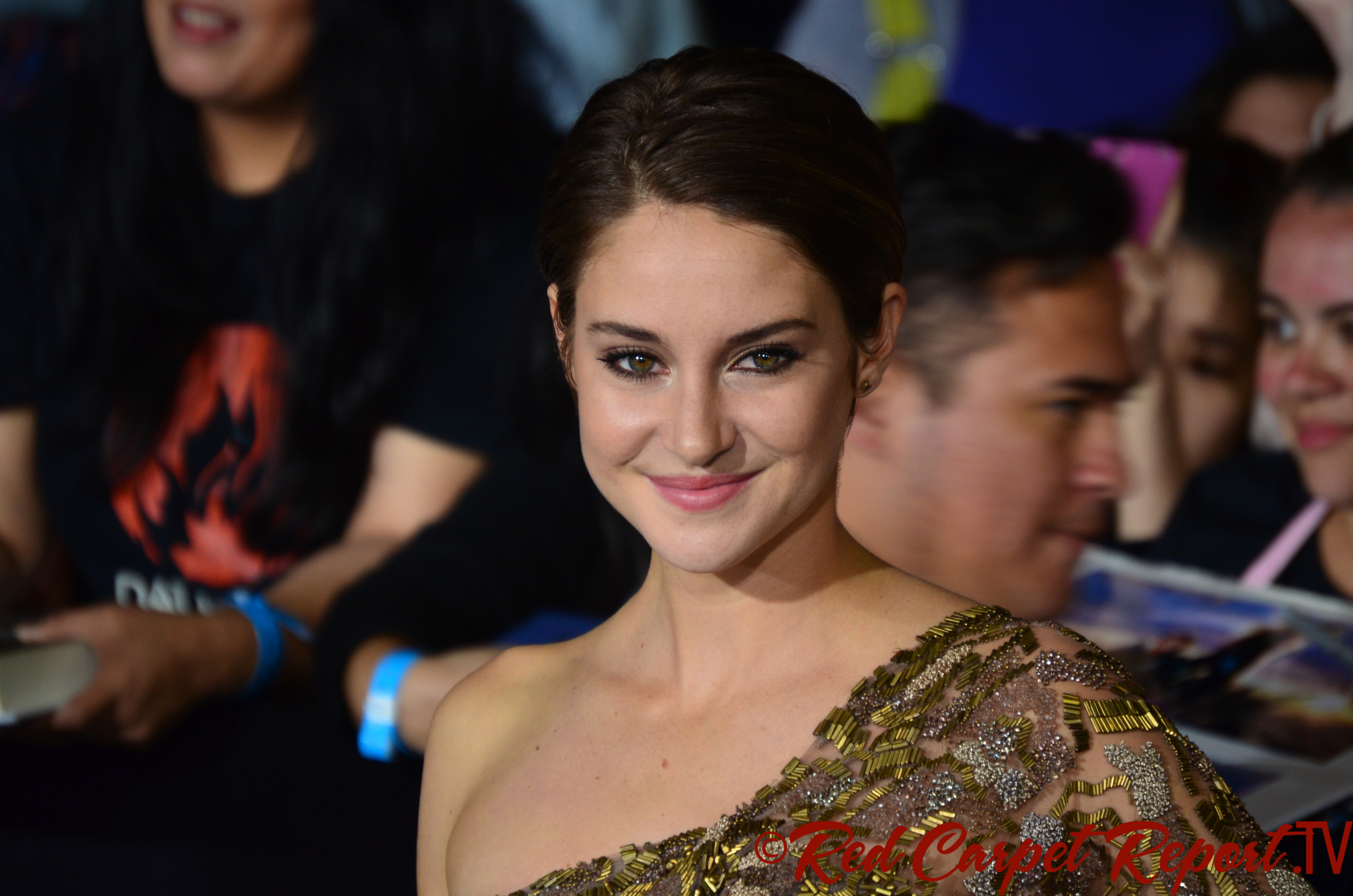 Shailene Woodley at the film premiere of "Divergent" in California on March 18, 2014